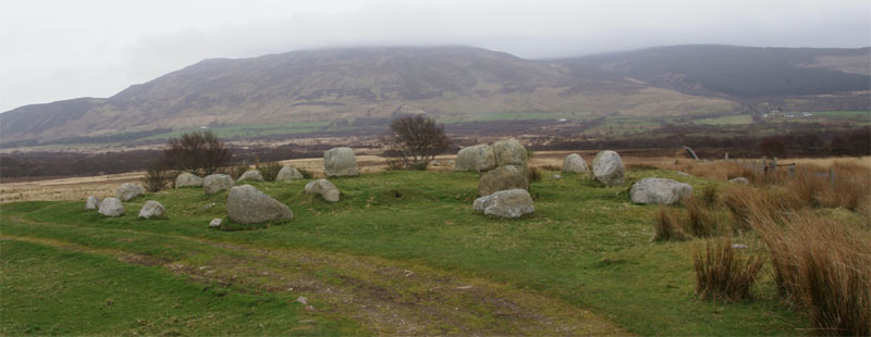 Machrie Moor Stone Circles (Arran, Scotland) - Circle 5